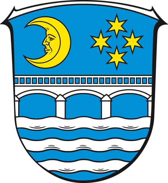 Coat of Arms of Leun